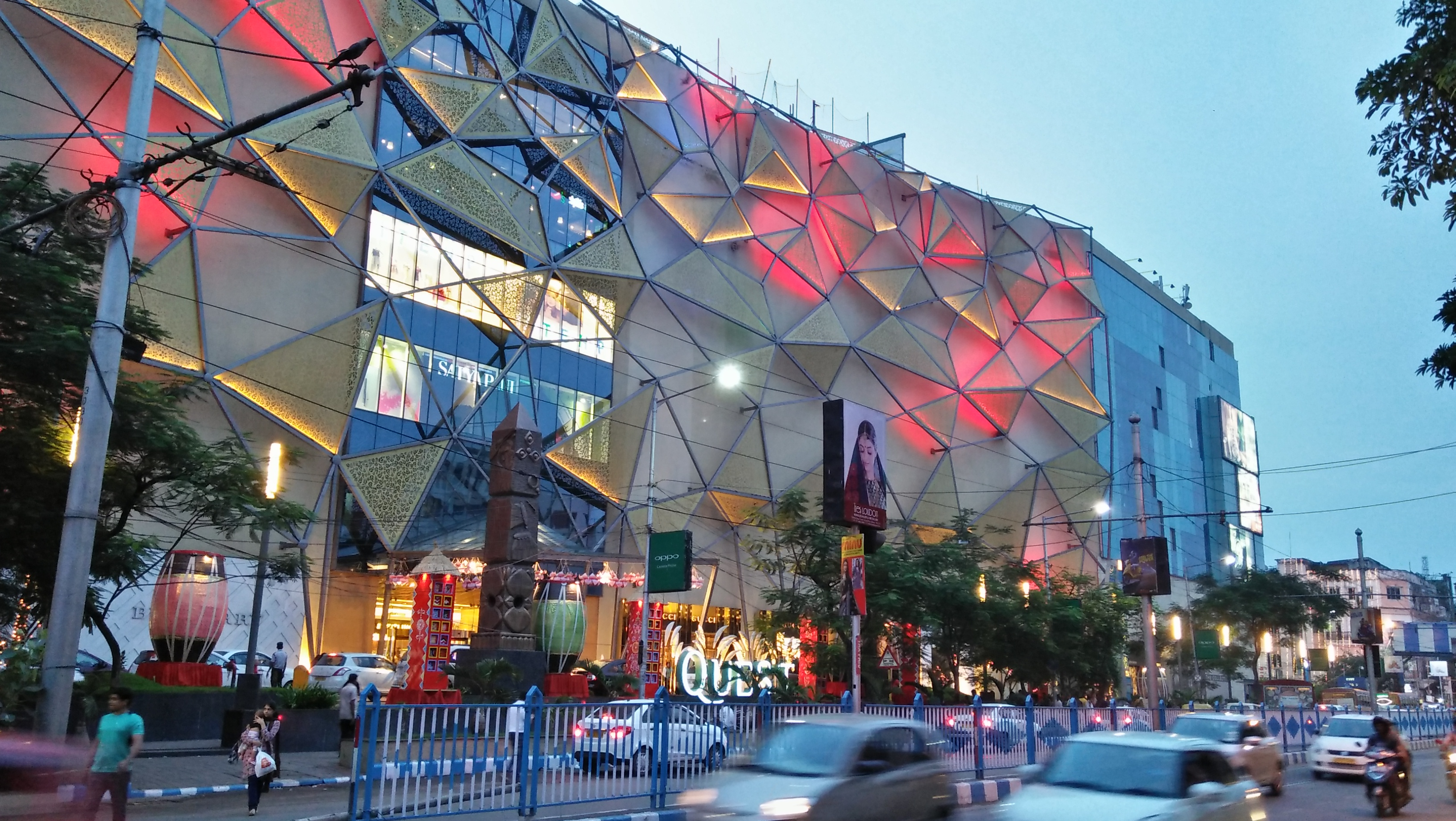 Photographed in Kolkata.